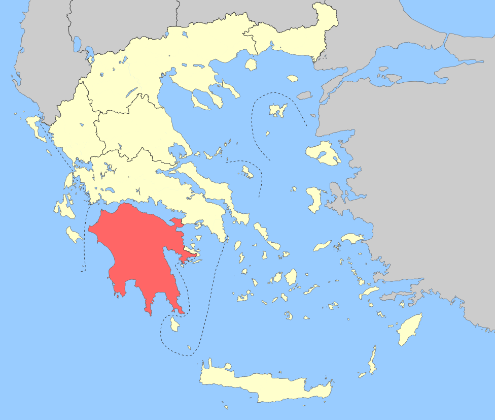 Position of geographic Region Peloponnisos in Greece